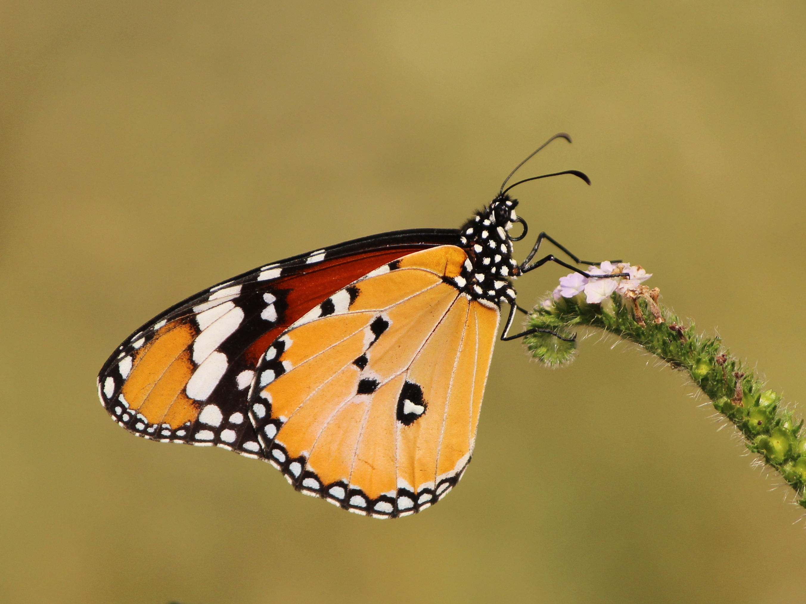 Danaus chrysippus in Bangalore